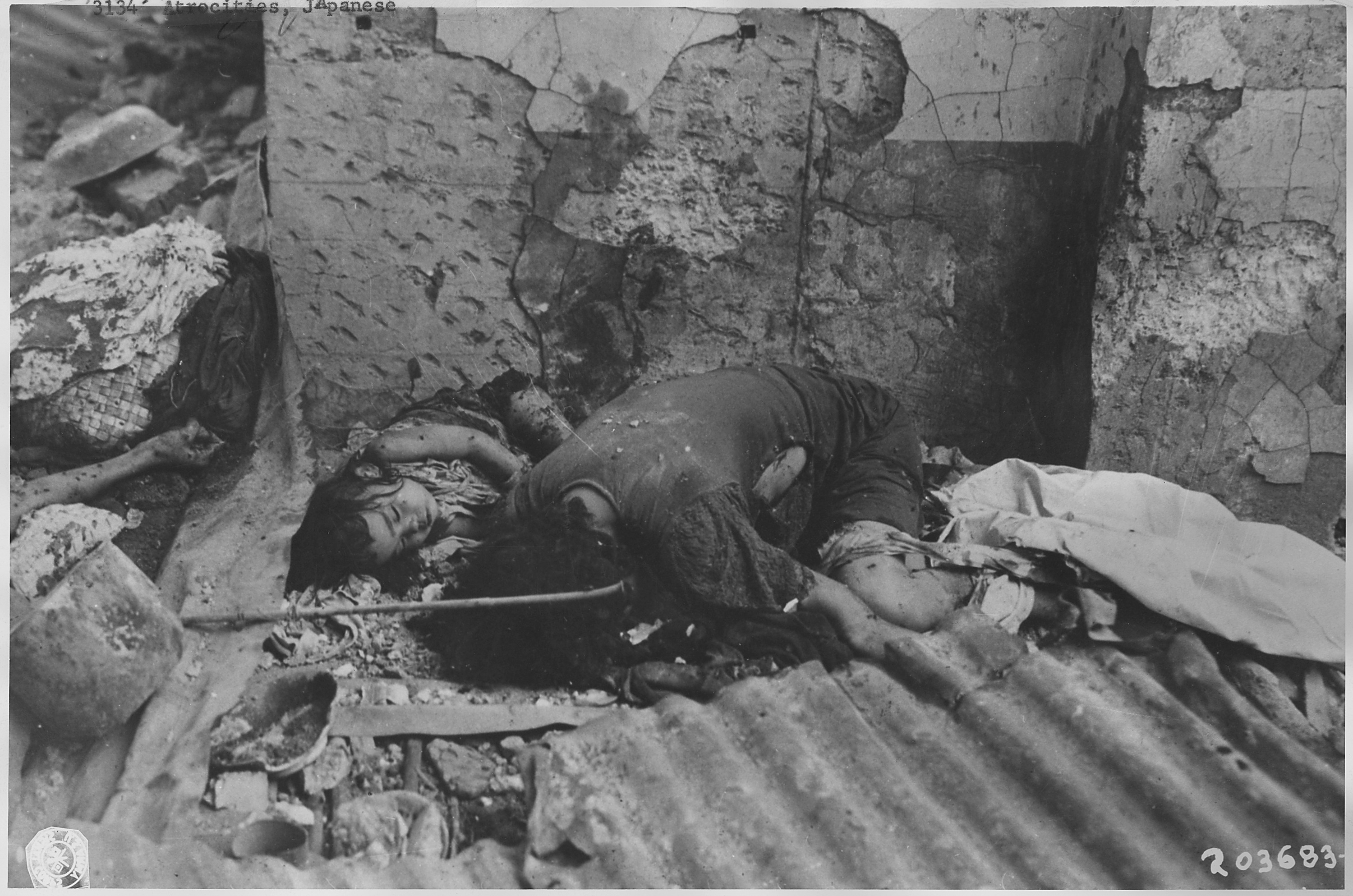 Scope and content: Filipino children killed by Japanese.